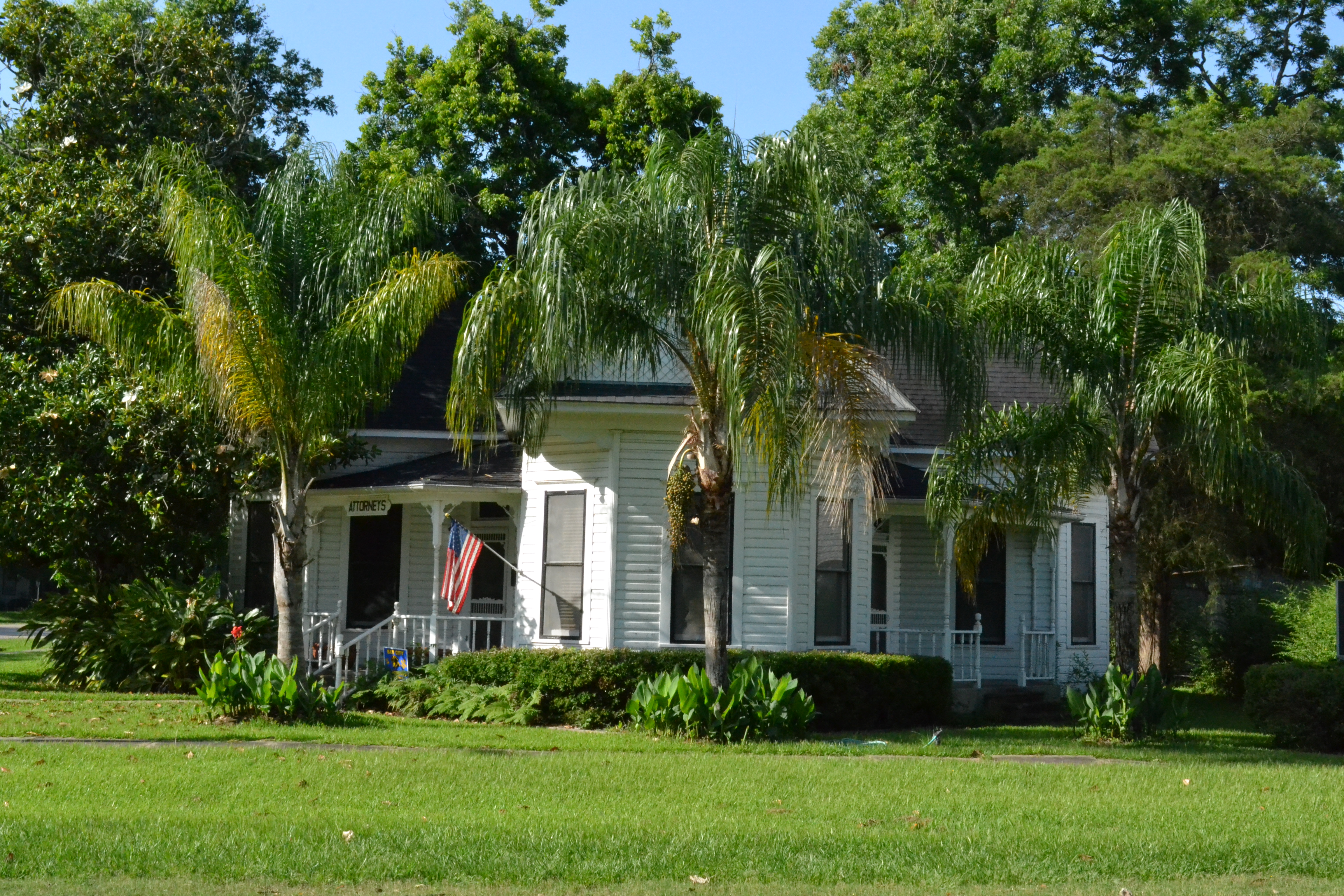 Hensley-Gusman House in Bay City, Texas. Listed on the National Register of Historic Places.